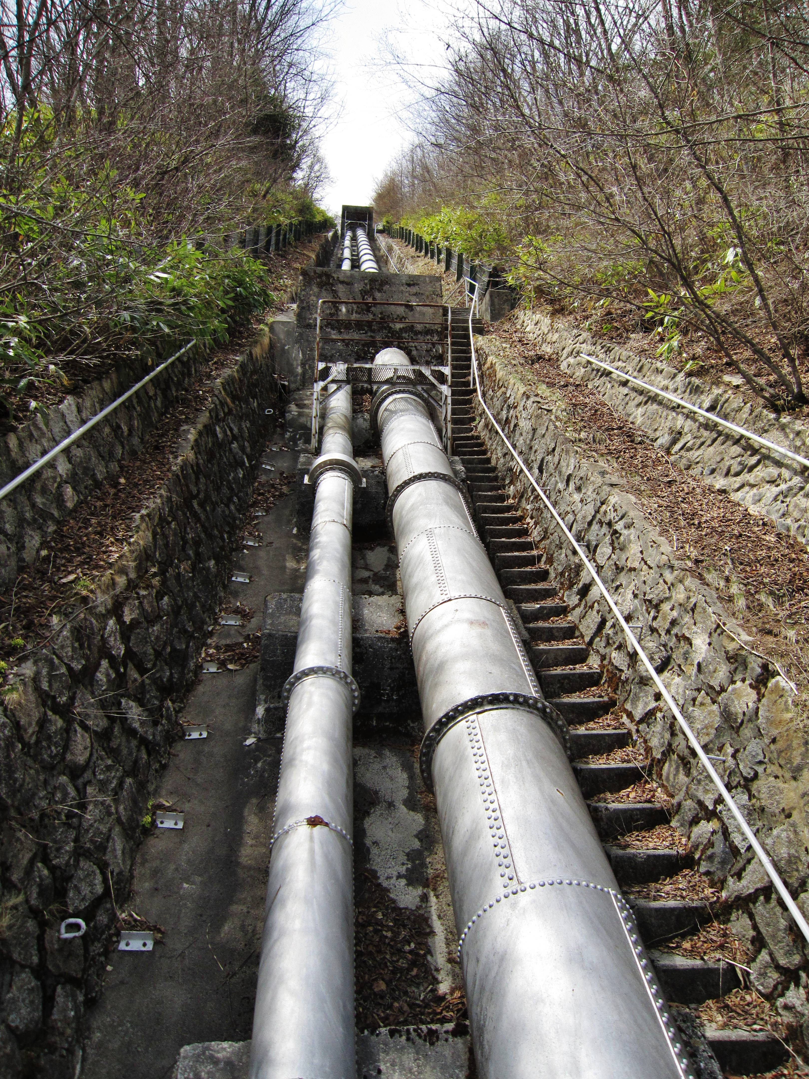 Nakabusa V power station penstock.